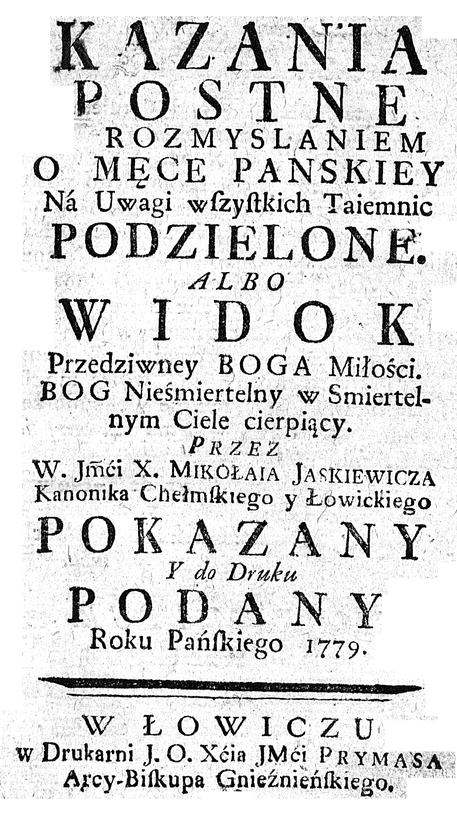 Mikołaj Jaśkiewicz "Kazania Postne o Męce Pańskiej.."